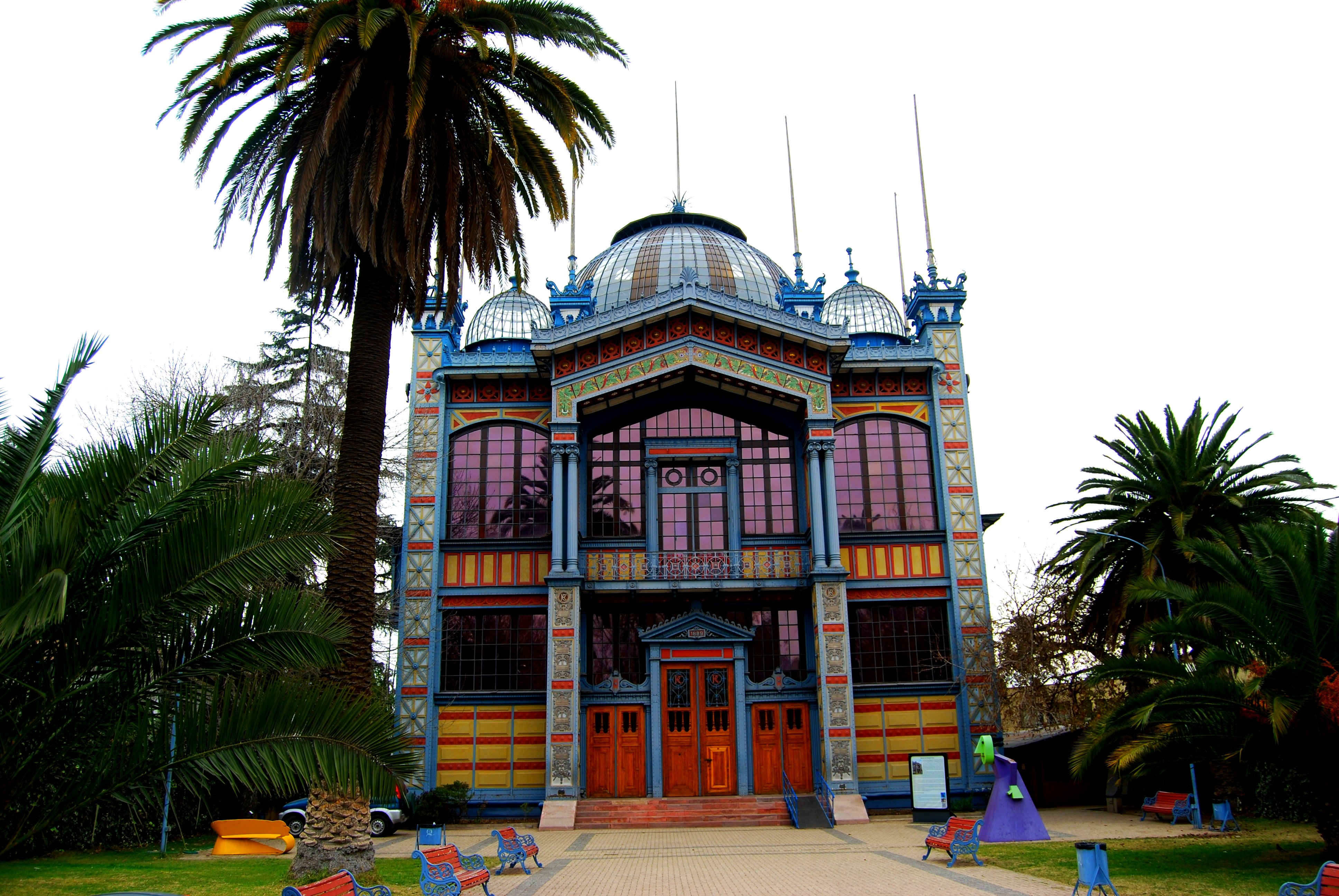 Avenida Portales 3530, Parque Quinta Normal, Santiago. Chilean Pavillion at the 1889 World's Fair in Paris. Shipped back to Chile. Henri Picq, architect Post card